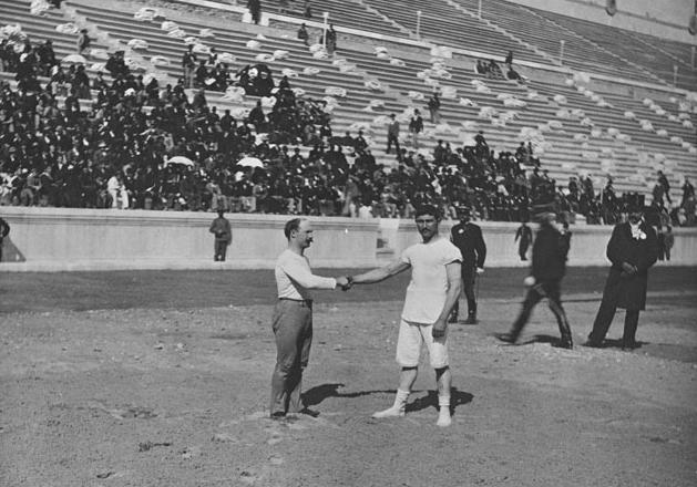 Carl Schuhmann (GER) and Giorgios Tsitas at Athens 1896